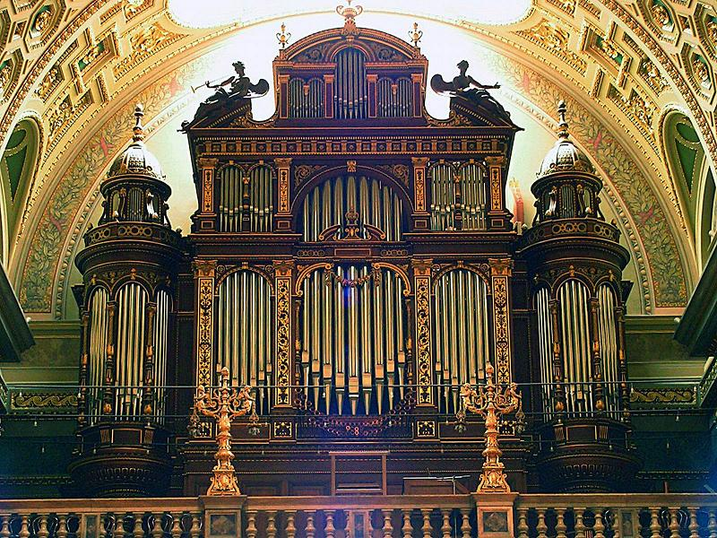 The Saint Stephen's Basilica in Budapest